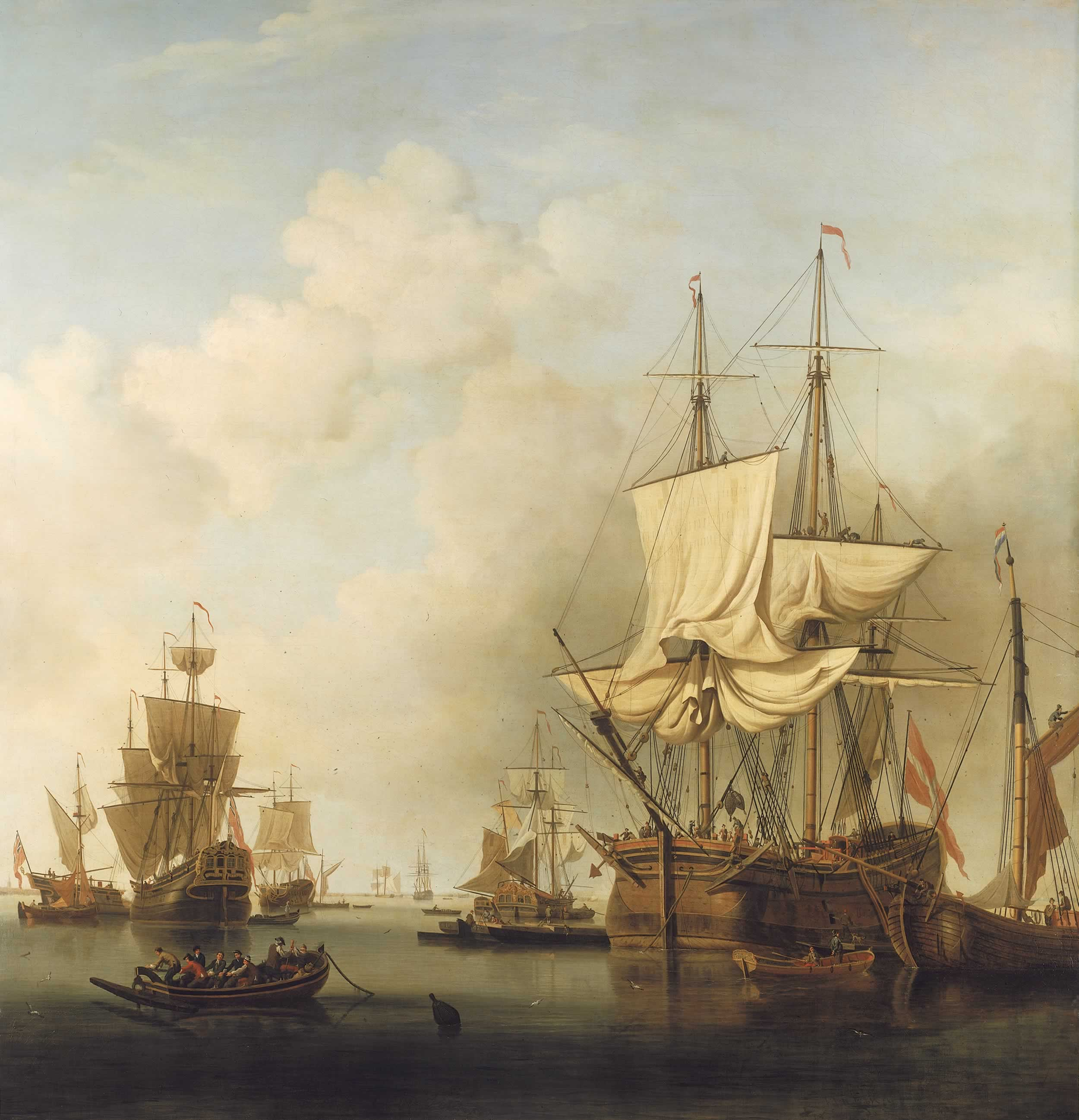 A ship-rigged cat-bark is shown on the right, with her anchors raised and making sail in very calm conditions. She is a Danish trading vessel flying their flag from the stern. Such ships were immensely strong and used to carry large tonnages such as wood. She is distinguishable by the lack of a figurehead at a time when even humble craft carried some form of decoration on the bow. The men on the deck appear very small in scale to emphasise the dimensions of the ship. The crew of the small boat are either hauling up the bark's anchor with the aid of a davit in the stern, or possibly shifting it in order to kedge her forward given the lack of wind. The deck of the bark is crowded with men heaving on halyards and making ropes fast, while high above them half a dozen sailors are perched on the yards loosening the sails. Piles of timber unloaded from the bark are shown on a barge to the left with its identifying number '472' clearly visible. Such details assert the concern of the painting to demonstrate the importance of trade and this is underscored by the inclusion of the other shipping, such as the craft on the right, which is flying the Dutch flag. The action takes place near the mouth of a river and is probably set in the Thames near Gravesend.